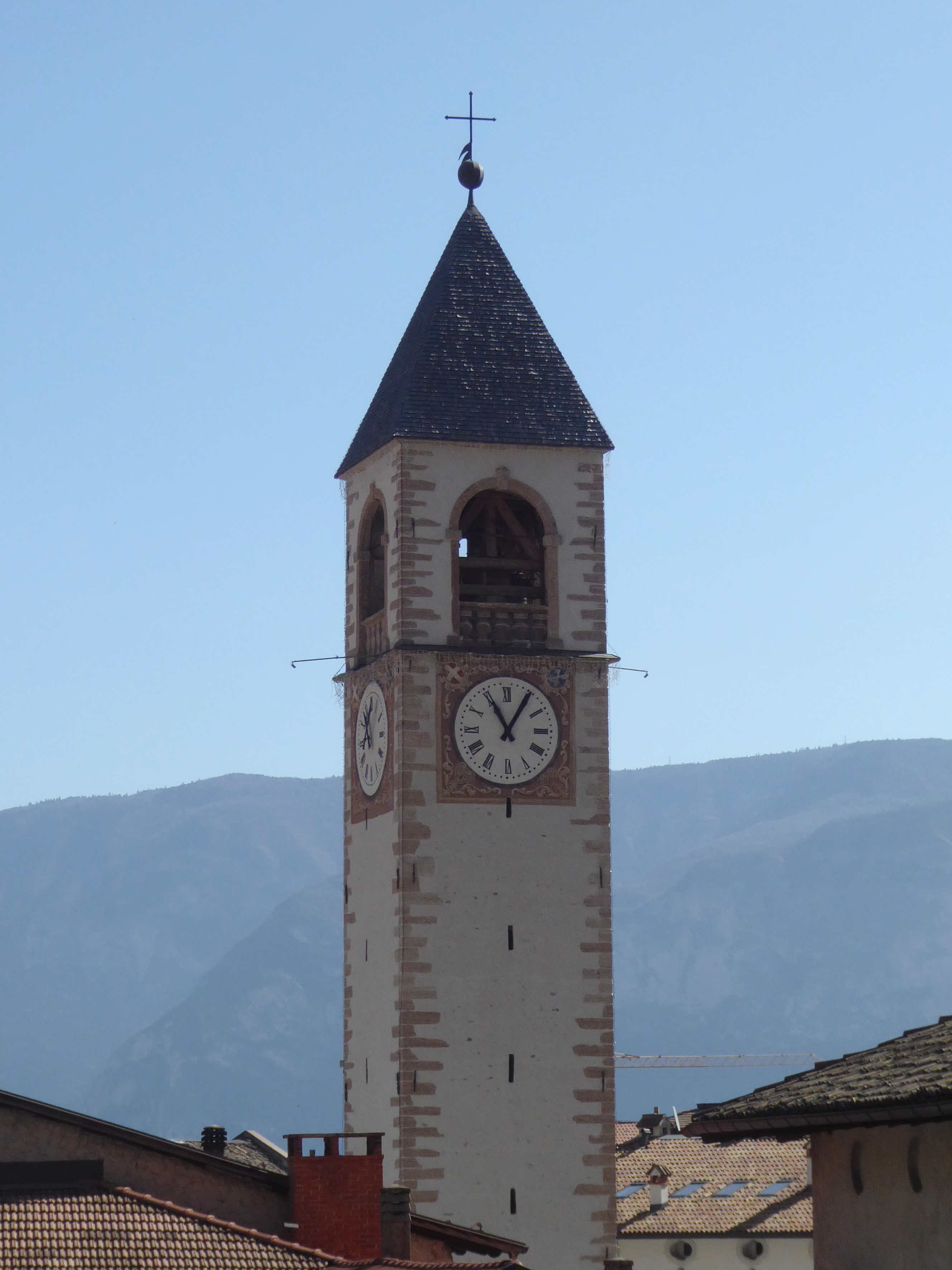 Mezzolombardo (Trentino, Italy) - Nativity of St John the Baptist church - Belltower